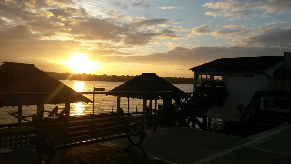 Atarceder en Guapí